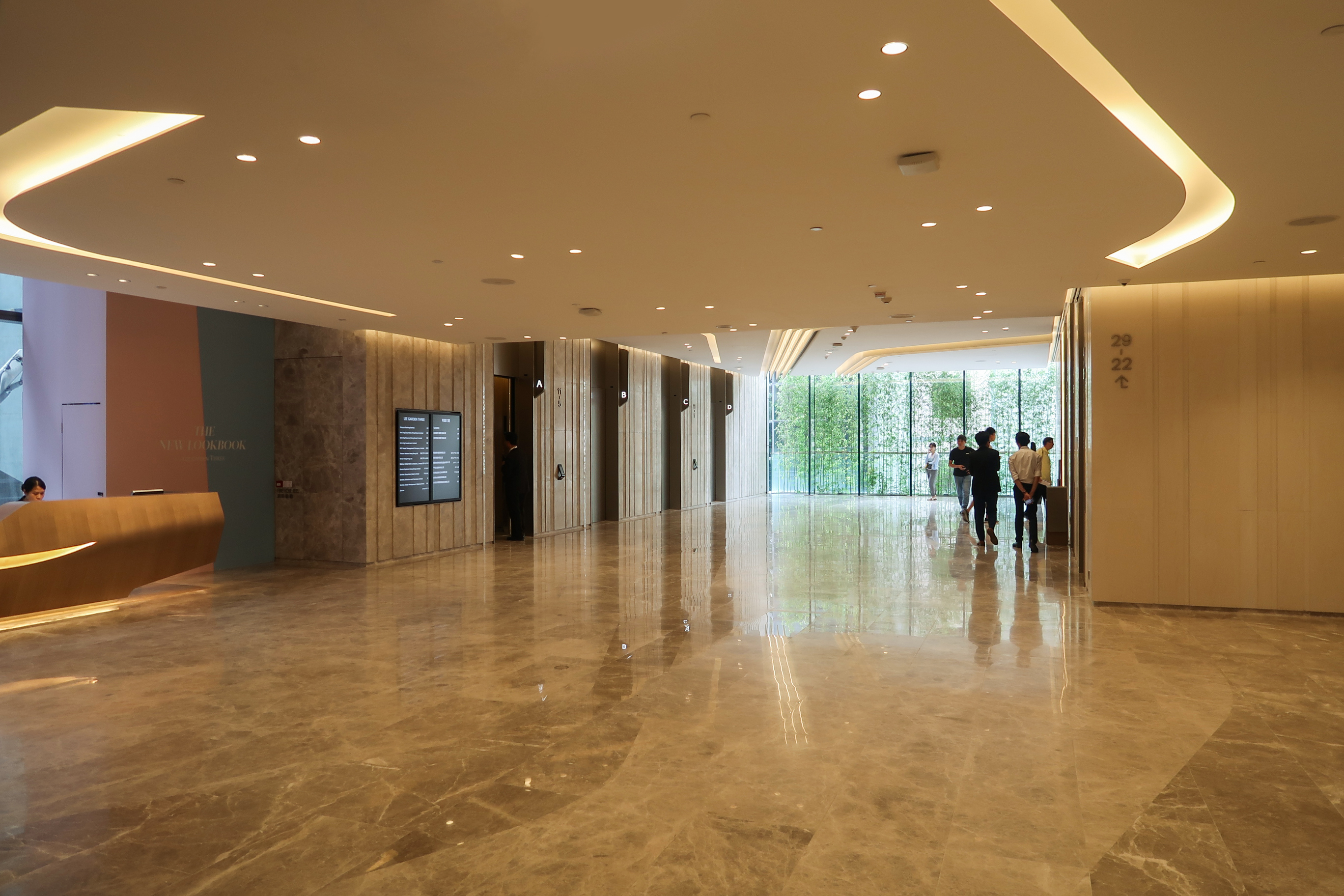 Lee Garden Three Level 3 Office lobby